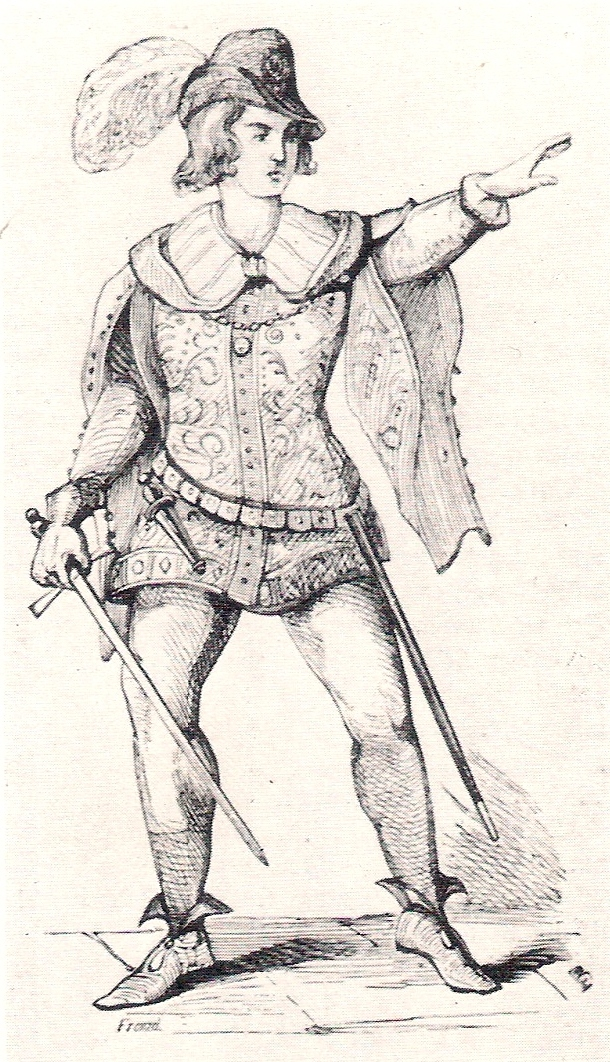 Sopran Wilhelmine Schröder-Devrient (1804-1860) as Adriano Colona at the première of "Rienzi" by Wagner.